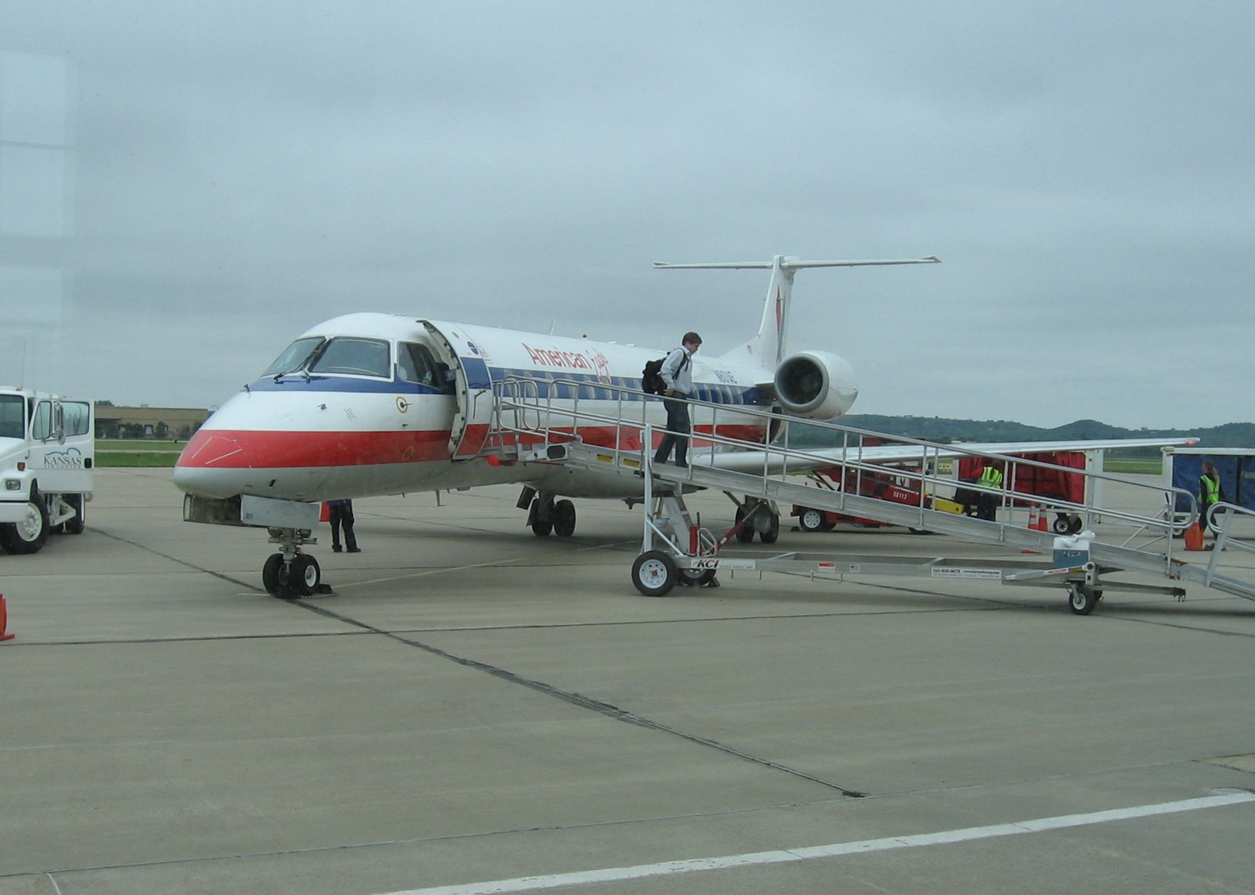 American Eagle flight at Manhattan's airport in 2012